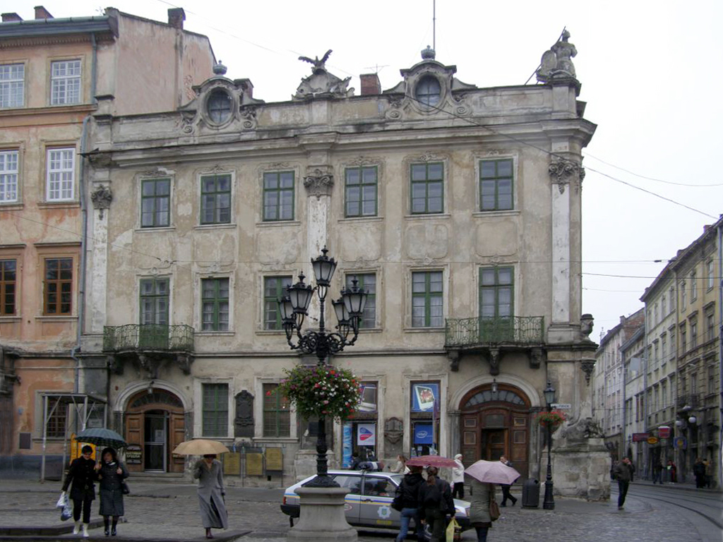 Lubomirski Palace in Lvov (Ukraine)